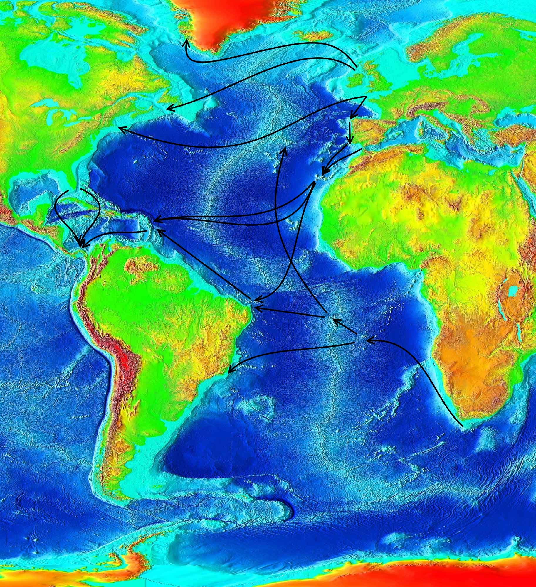 North and south Atlantic Ocean with the prefered sailing routes in westward direction